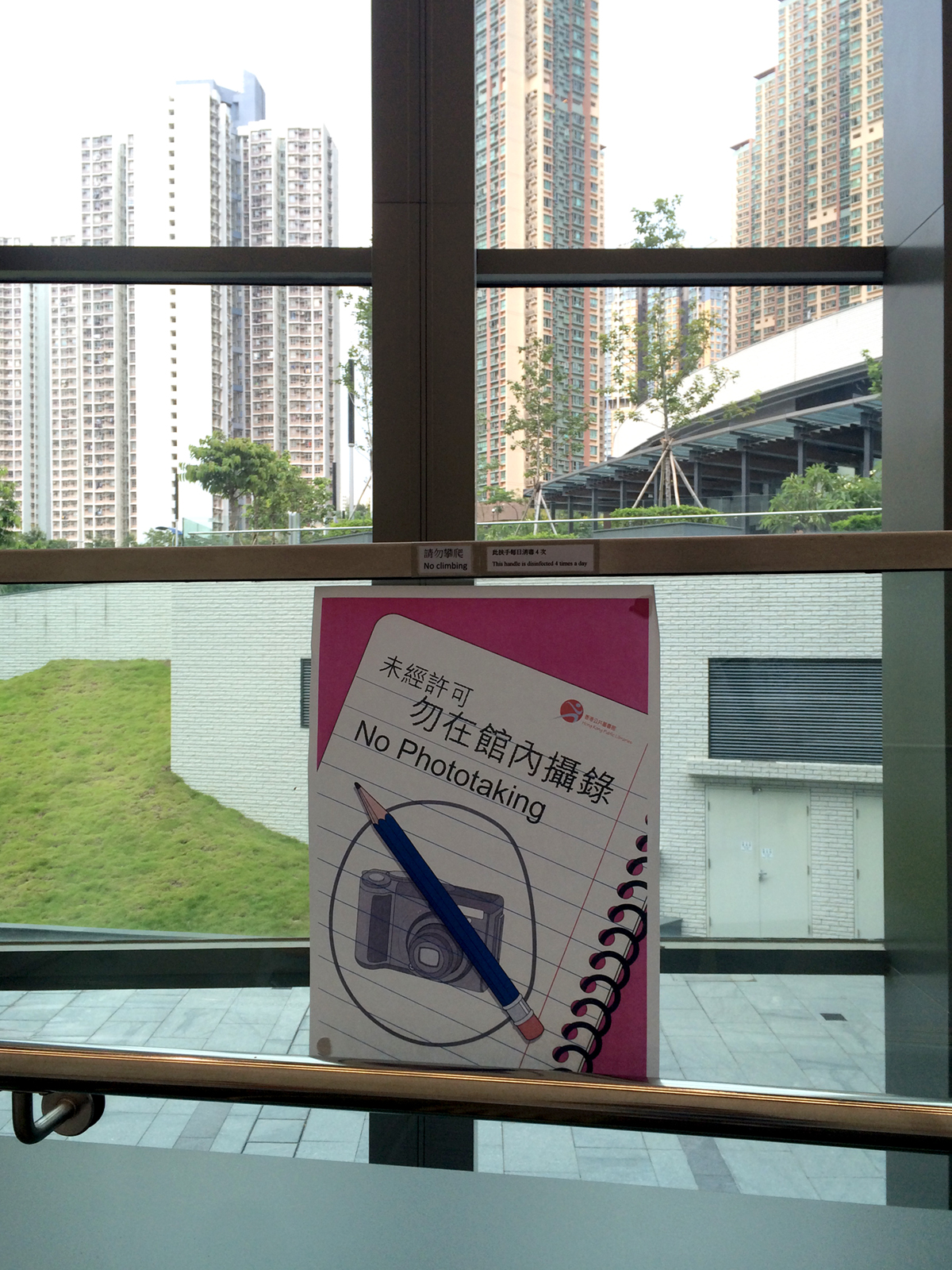 Tiu Keng Leng Public Library No photography notice